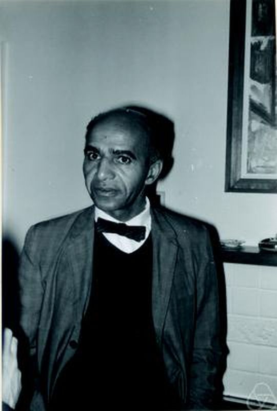 David Blackwell, Seattle 1967